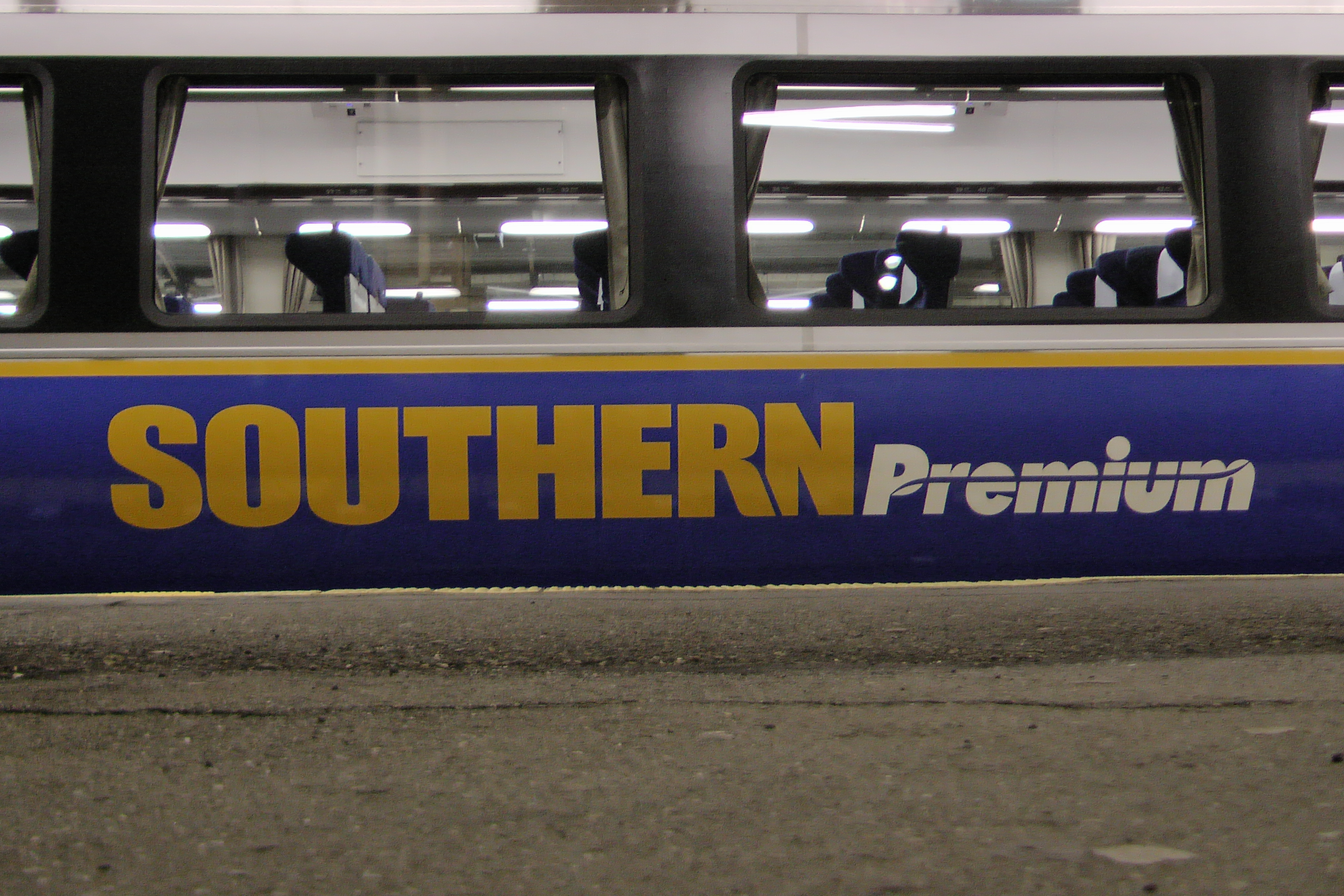 Written "Southern Premiam" side logo of Nankai 12000 series.